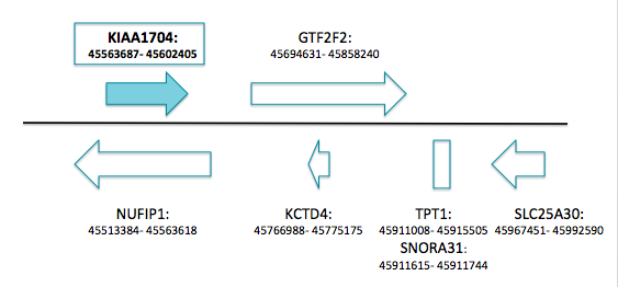 KIAA1704 gene neighborhood on same and opposite strand.